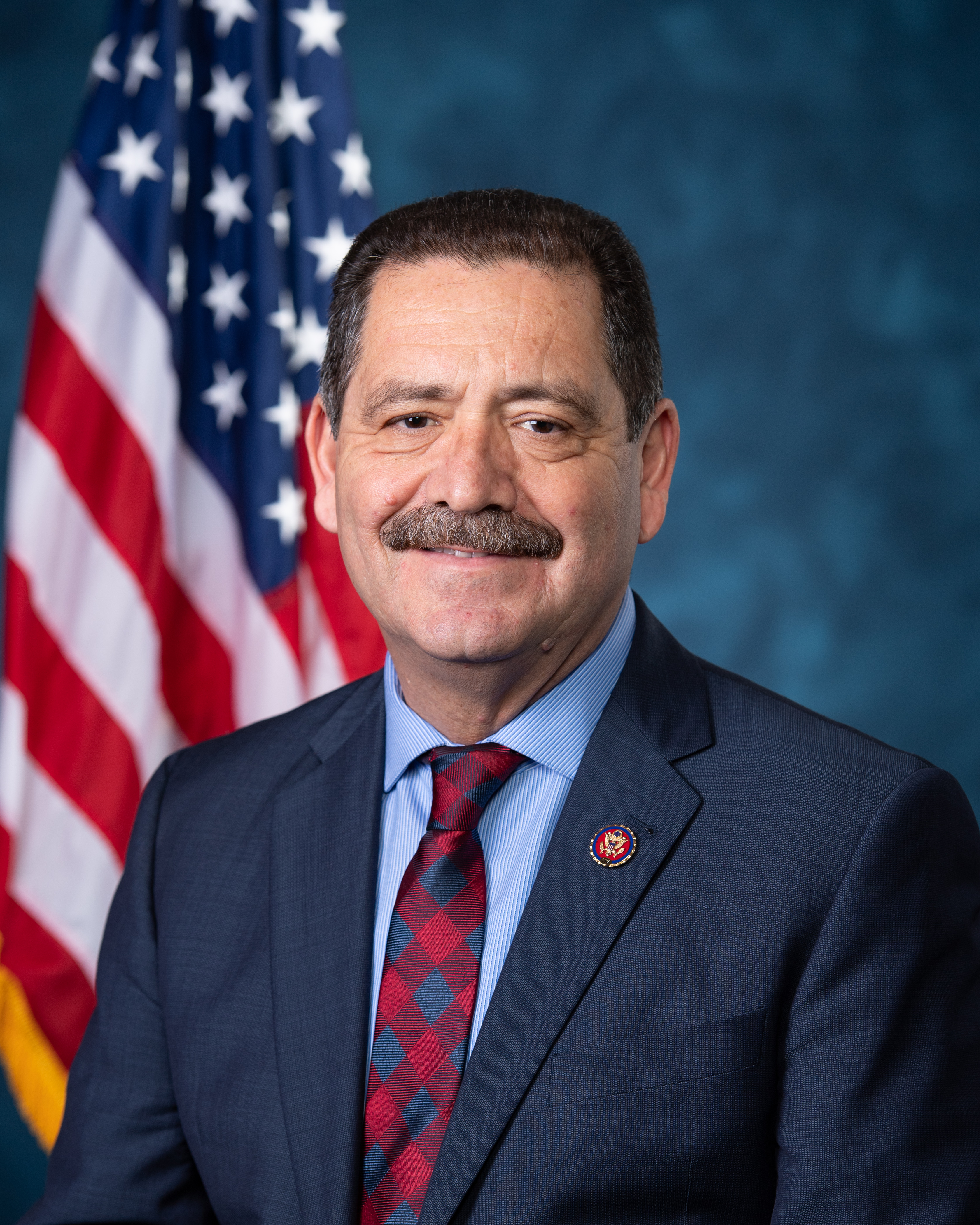 Photo of Rep. Jesús "Chuy" García (D-IL4)